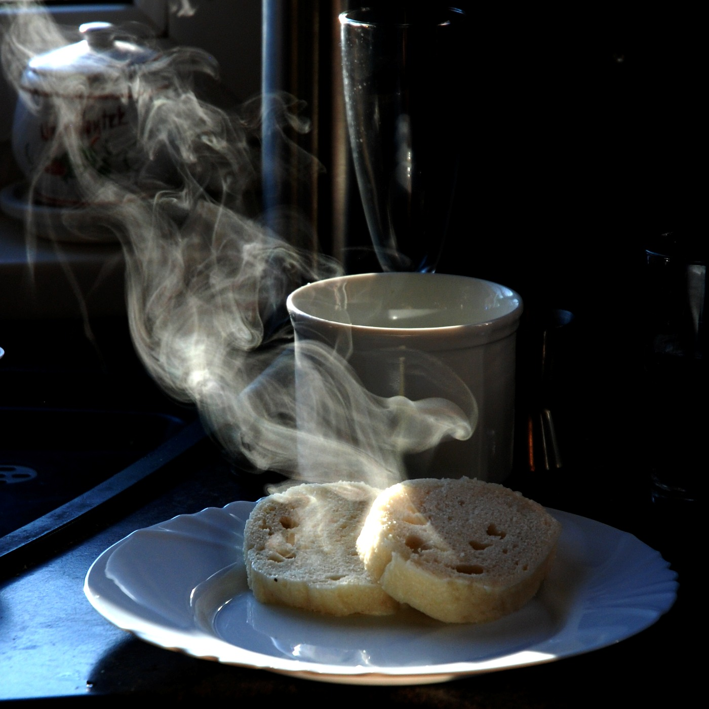 Fresh and hot czech dumplings